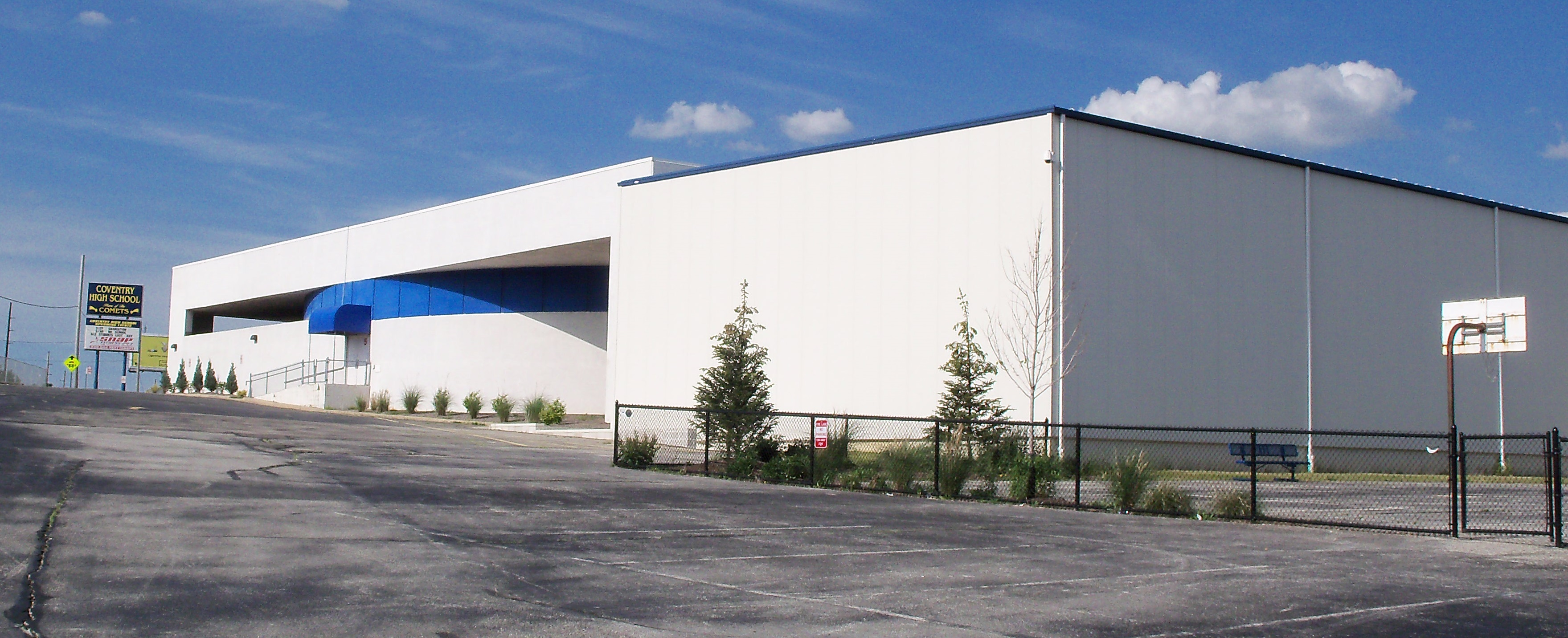 Coventry High School (Ohio)